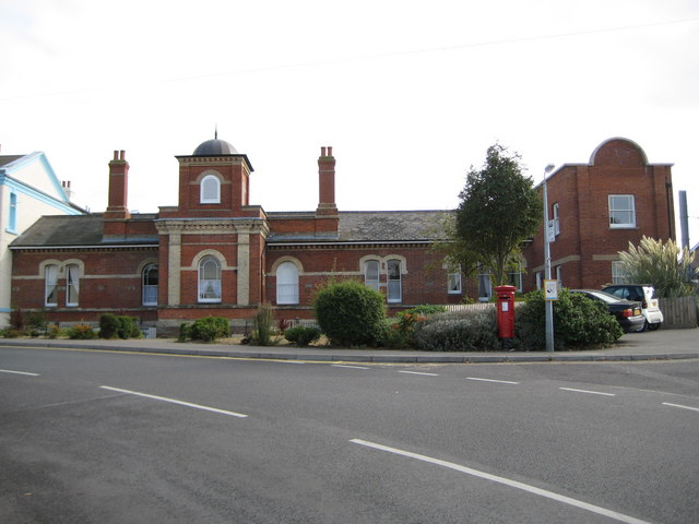 Walton-on-the-Naze: The former railway station building Walton still has its functioning railway station, seen here 793301, but this building next door, now converted into residential accommodation, is the original Great Eastern Railway structure. The local photographic firm of Putmans have an image from the same viewpoint dated 1984 here which shows the building in use as the station. Since then the domed roof and block above the original entrance have been added, although another old photograph in Putmans' archive taken from a different angle would suggest that a tower there was part of the original fabric of the building anyway. The station name in the 1984 image is Walton-on-Naze. This did not change until 2007 when it became the current Walton-on-the-Naze.